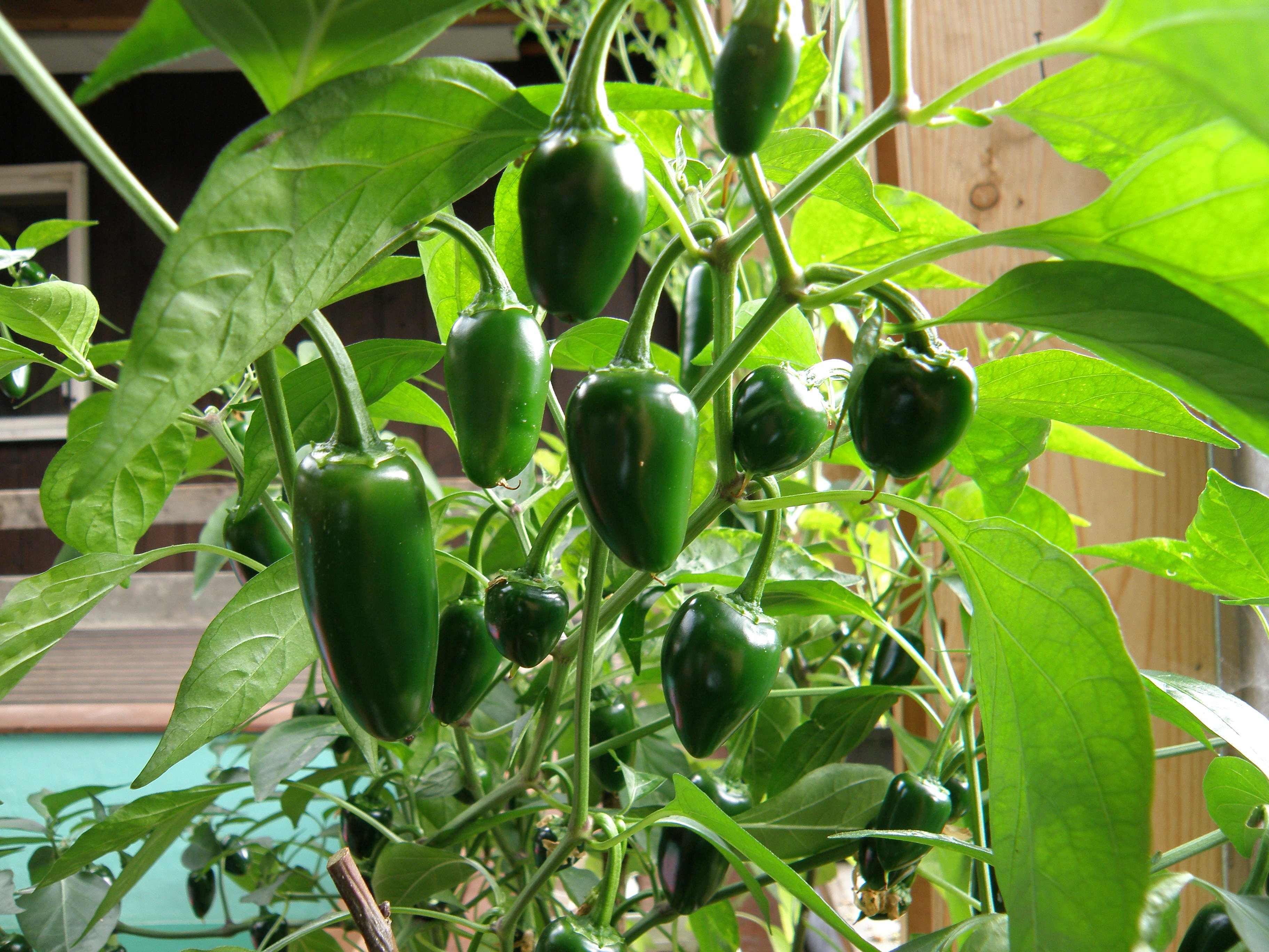 Jalapeño